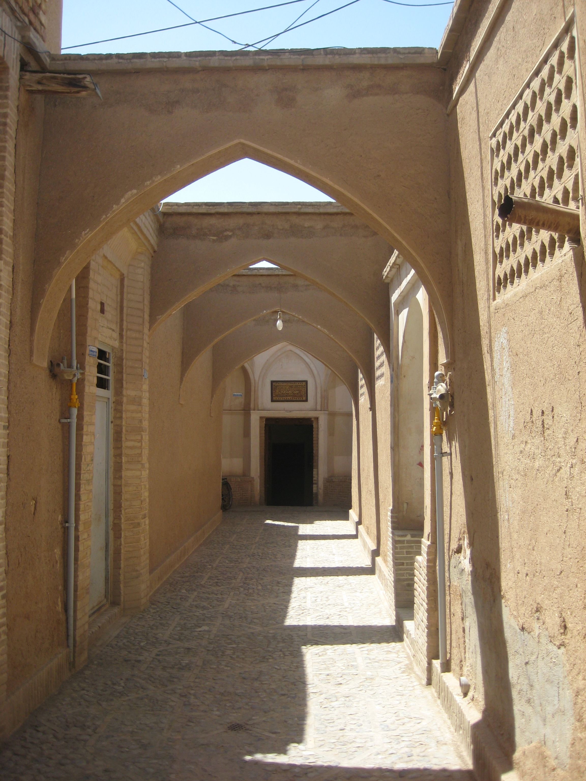 Tabātabāei House Entrance in Kashan, Iran